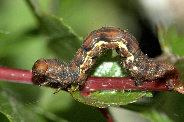 Picture taken in Commanster, Belgian High Ardennes . Species: Ectropis crepuscularia caterpillar